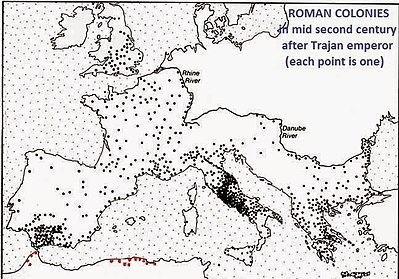 Colonias del Imperio Romano a mediados del siglo II d.C.